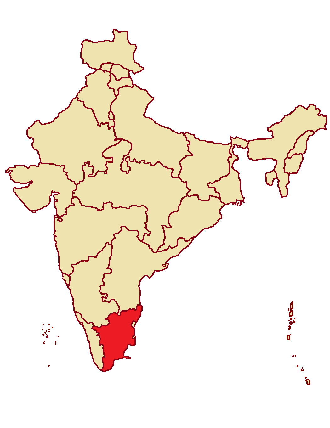 States and Union Territories of India, as of 1964-1965, i.e. between the creation of the state of Nagaland in 1963 and the Punjab Reorganization Act, 1966. Map does not include territories claimed by India but controlled by other countries. Borders not necessarily to scale. Based on File:States_of_India_(1964).png